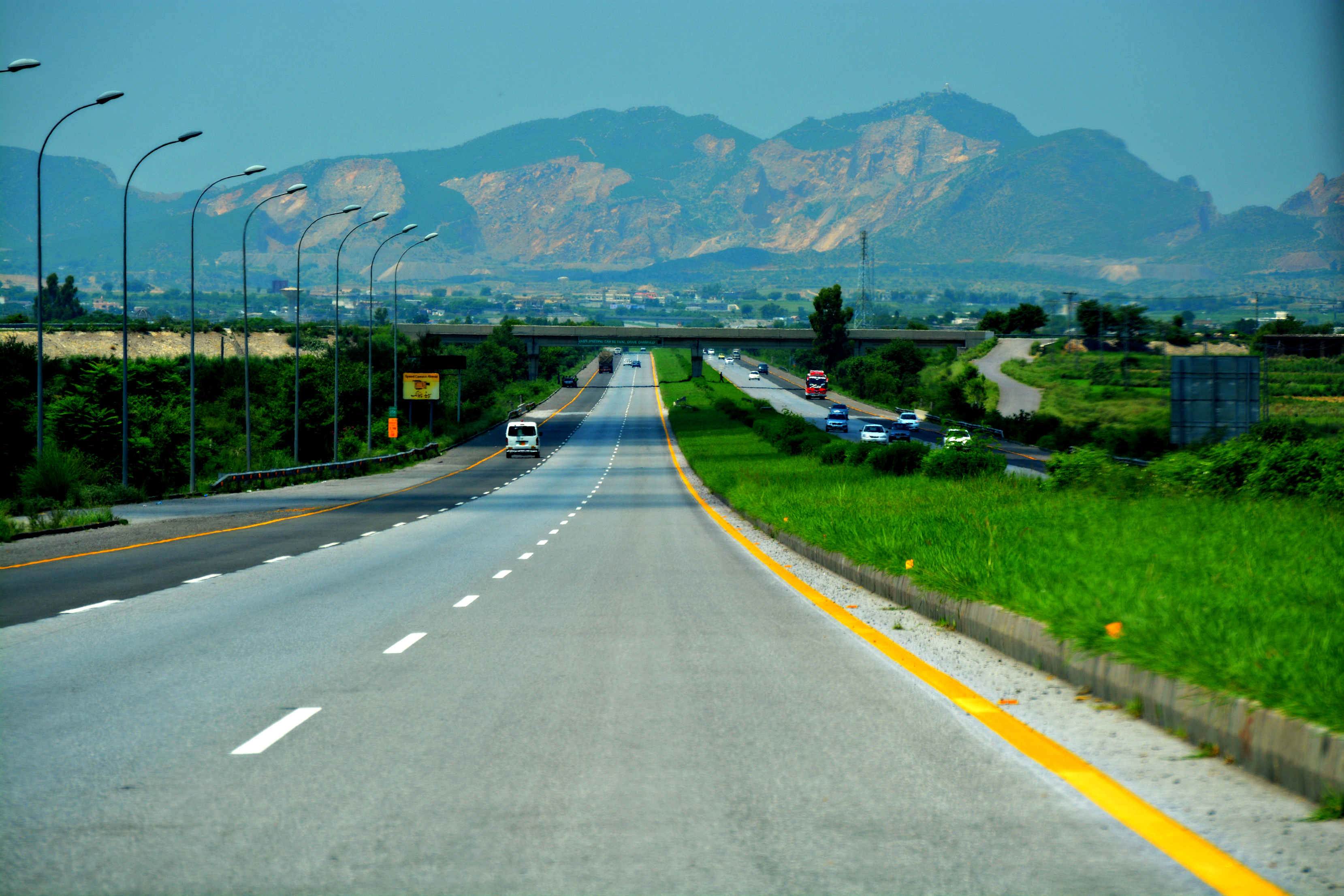 beautiful scene on motorway M-1 Taxila.